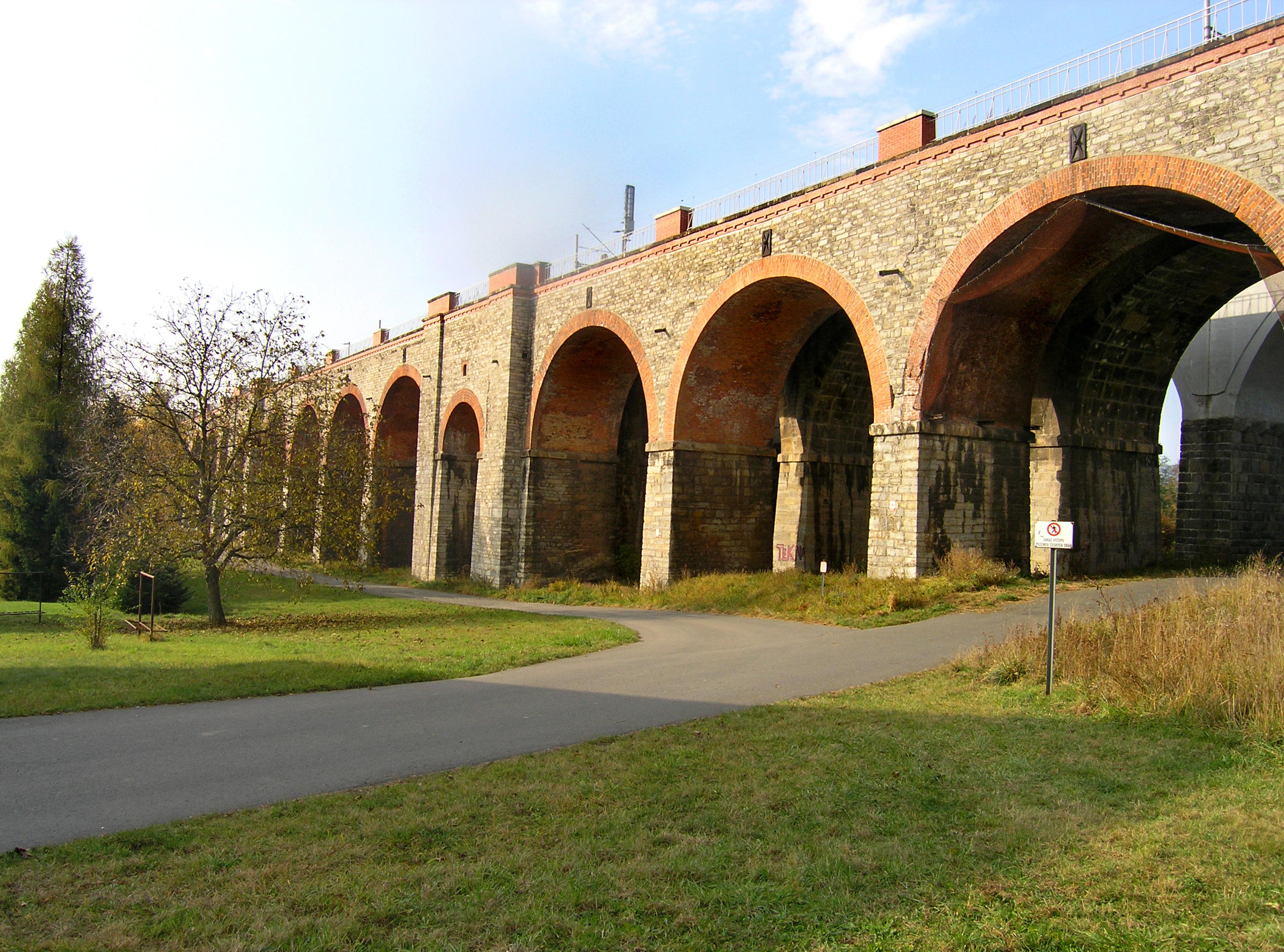 Technical monument Hranice Viaducts in Hranice, Czech Republic